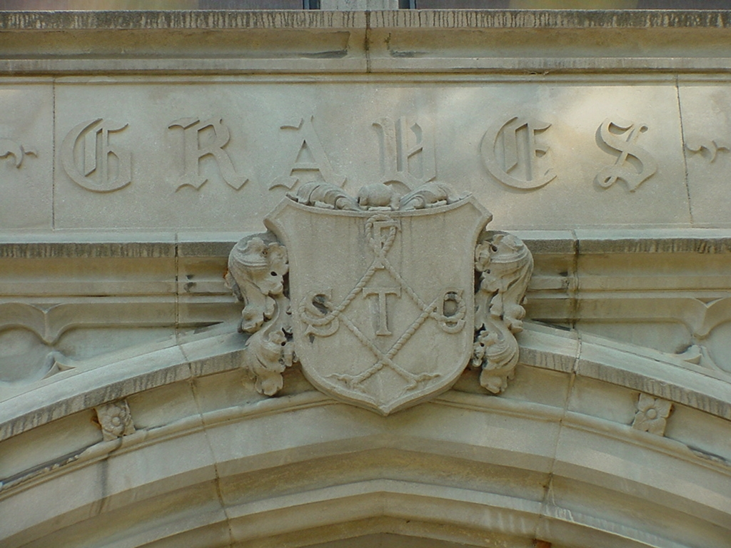 Taken by me at University of North Alabama, May 22, 2007